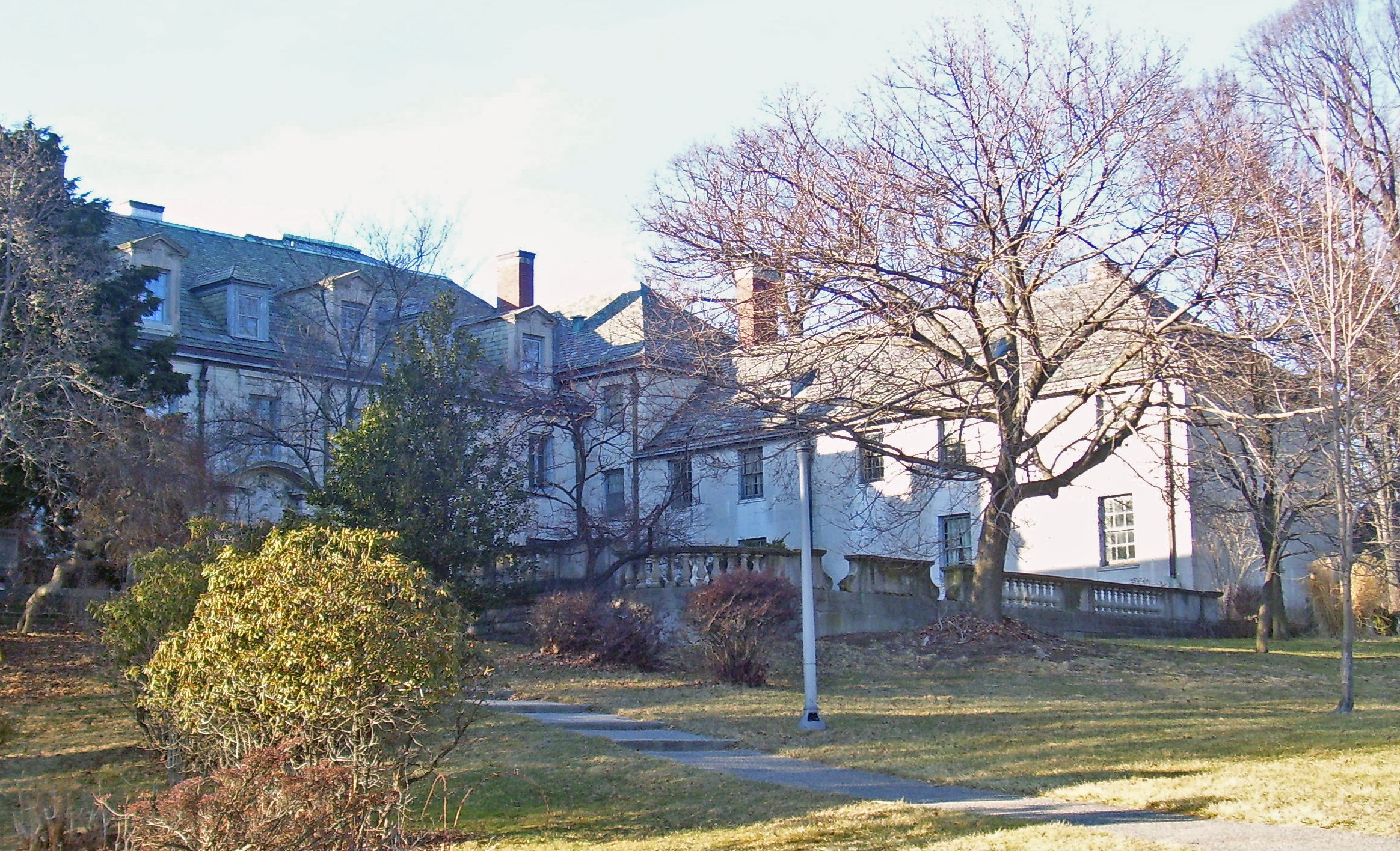 W.B. Thompson Mansion — in Yonkers, Westchester County, New York. Designed by the NYC firm Carrère and Hastings in 1912. On the National Register of Historic Places in Westchester County.